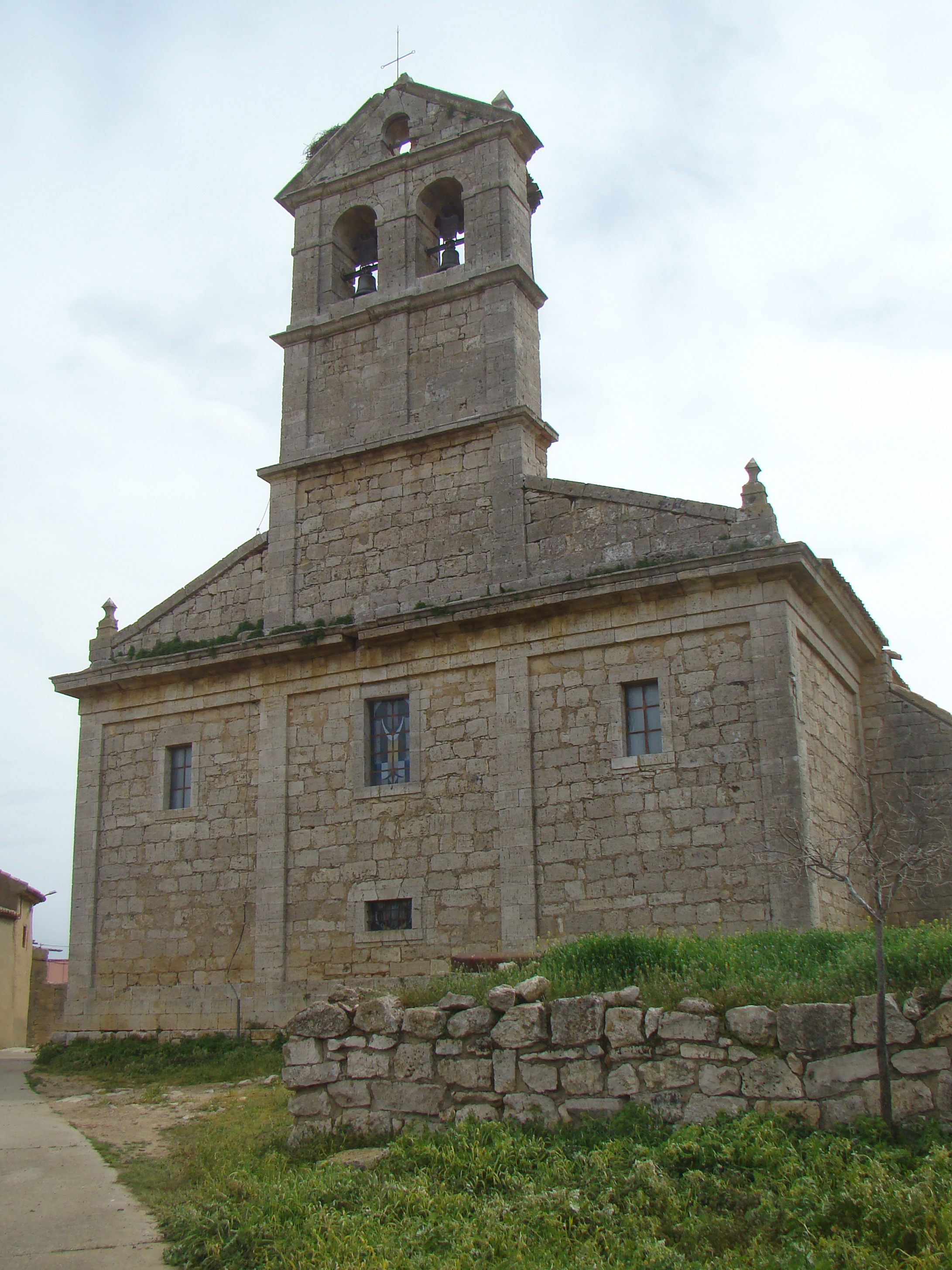 Parish Church of Santa María de Villalonso, Zamora, Spain. It dates from the sixteenth century.